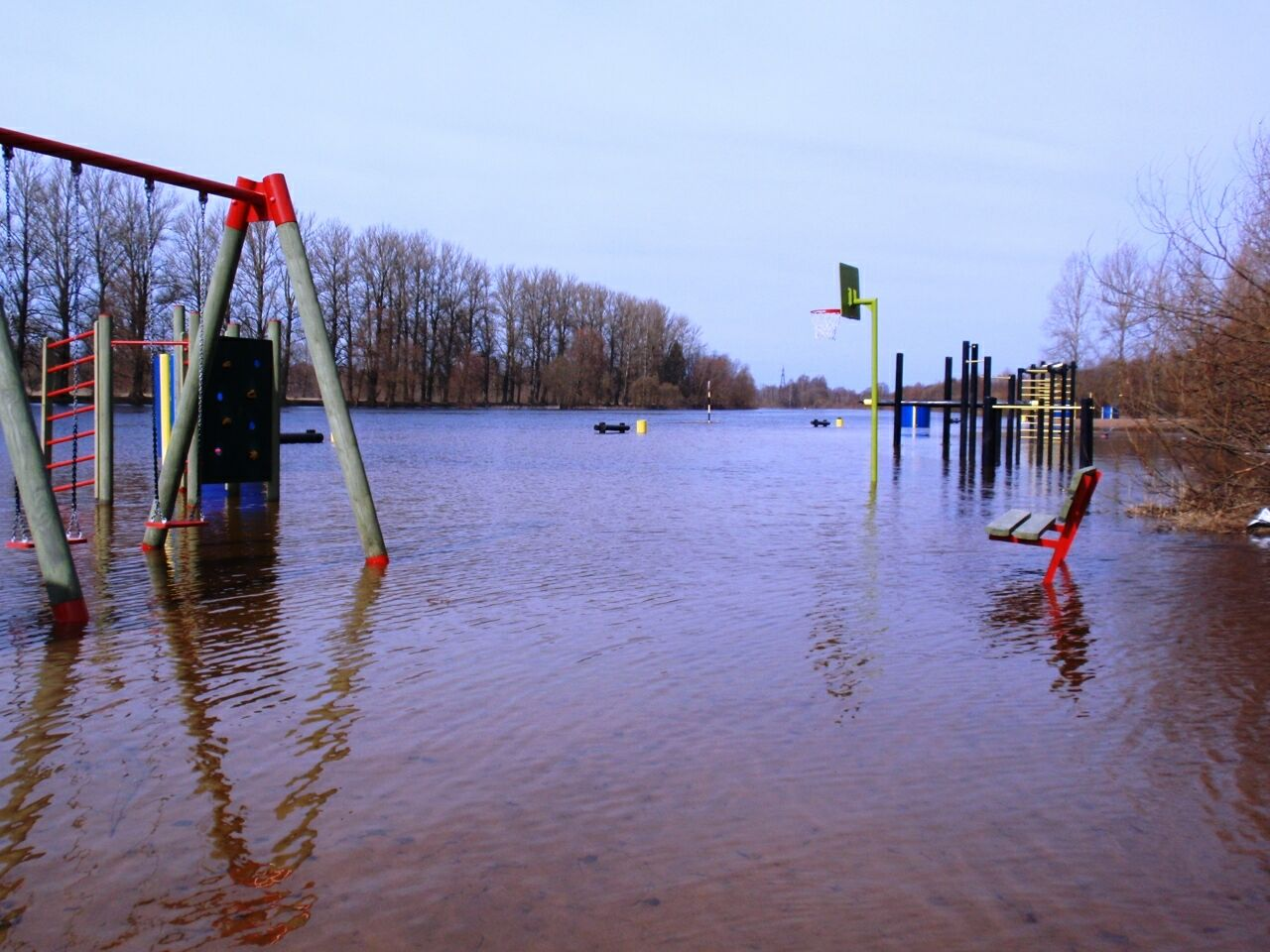 Flooding of the Emajõgi in Tartu, 2010.